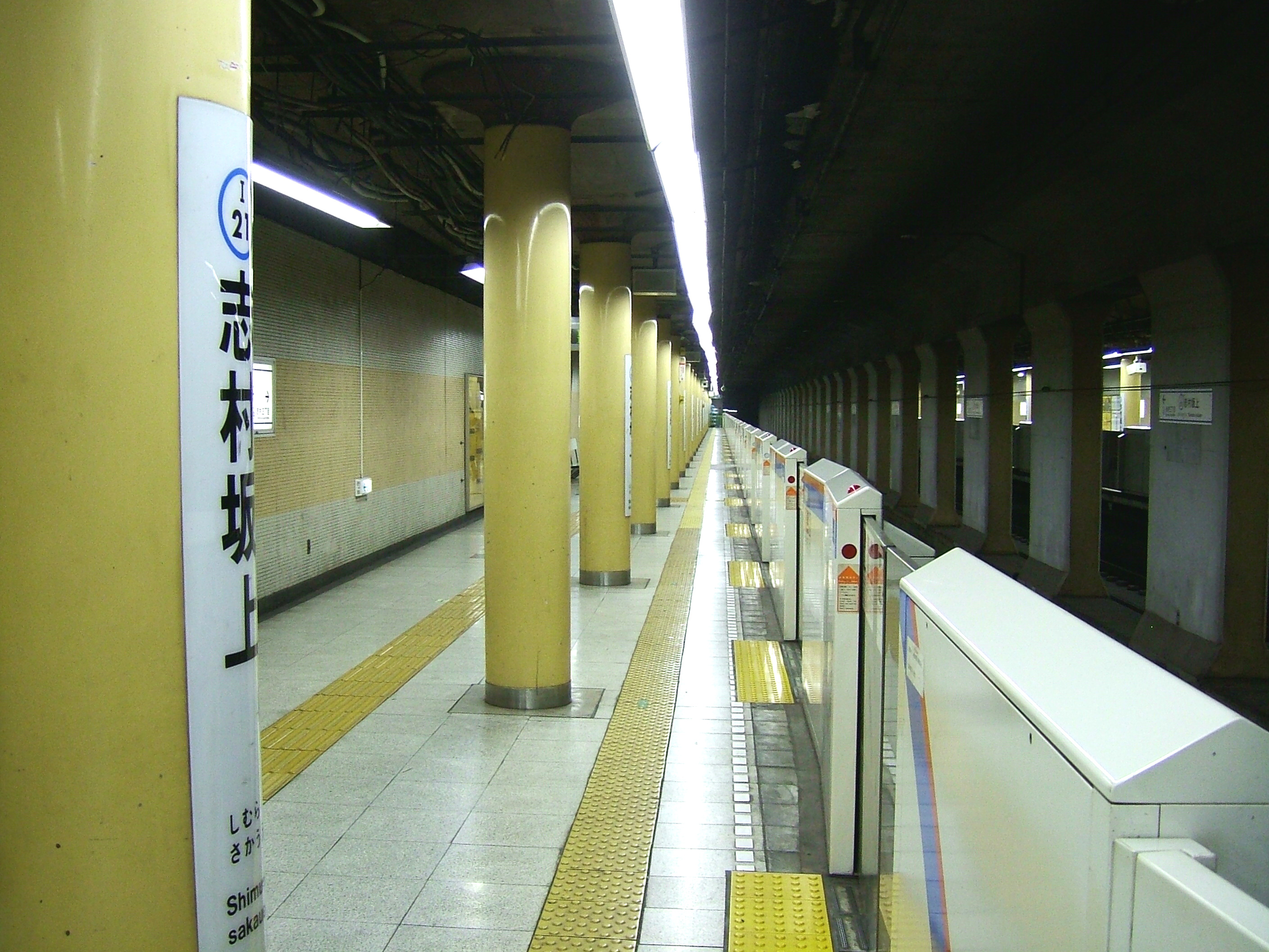 The platforms at Shimura-Sakaue Station on the Toei Mita Line in Itabashi city, Tokyo, Japan